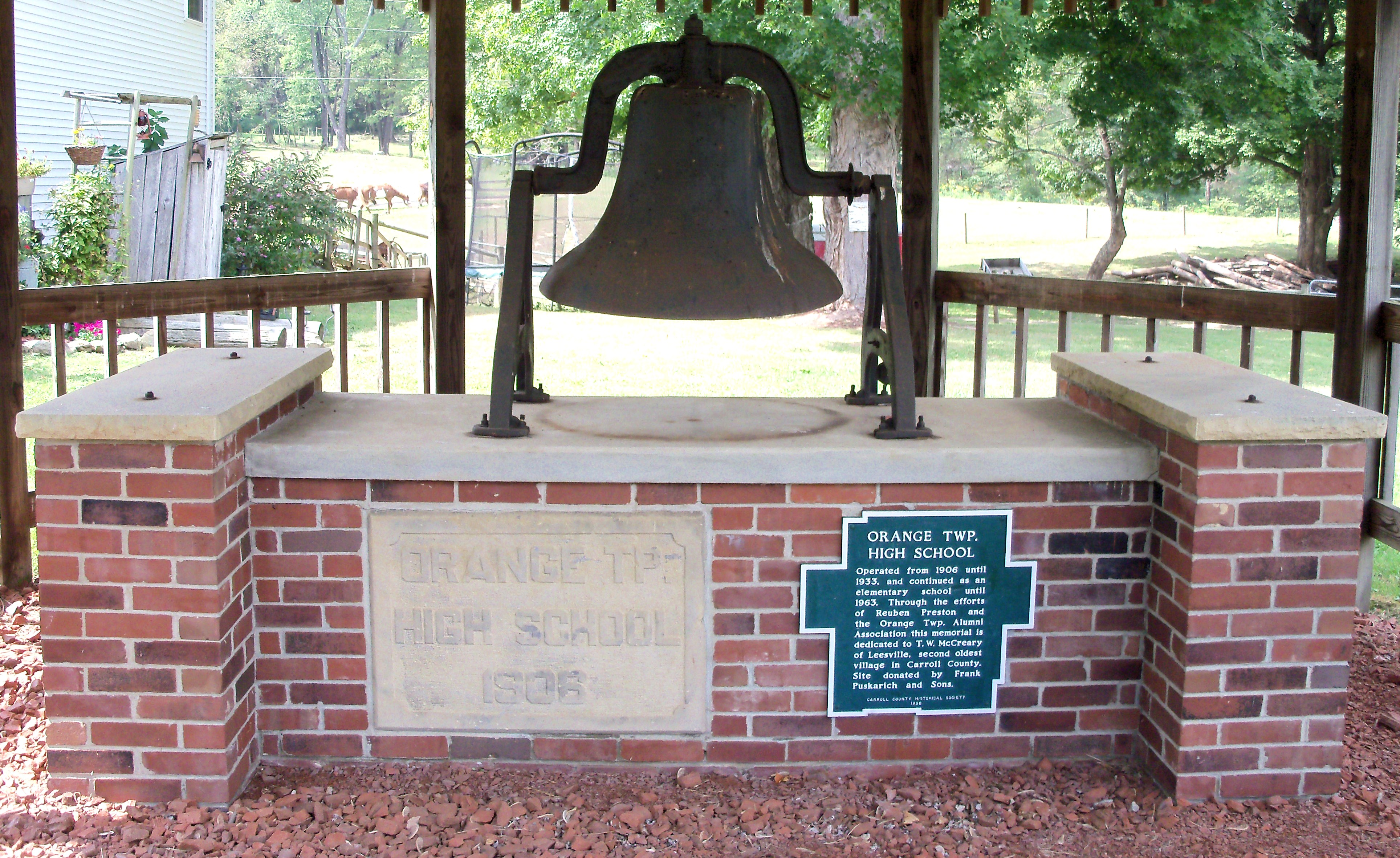 Memorial to old high school in Orange Township, Carroll County, Ohio.